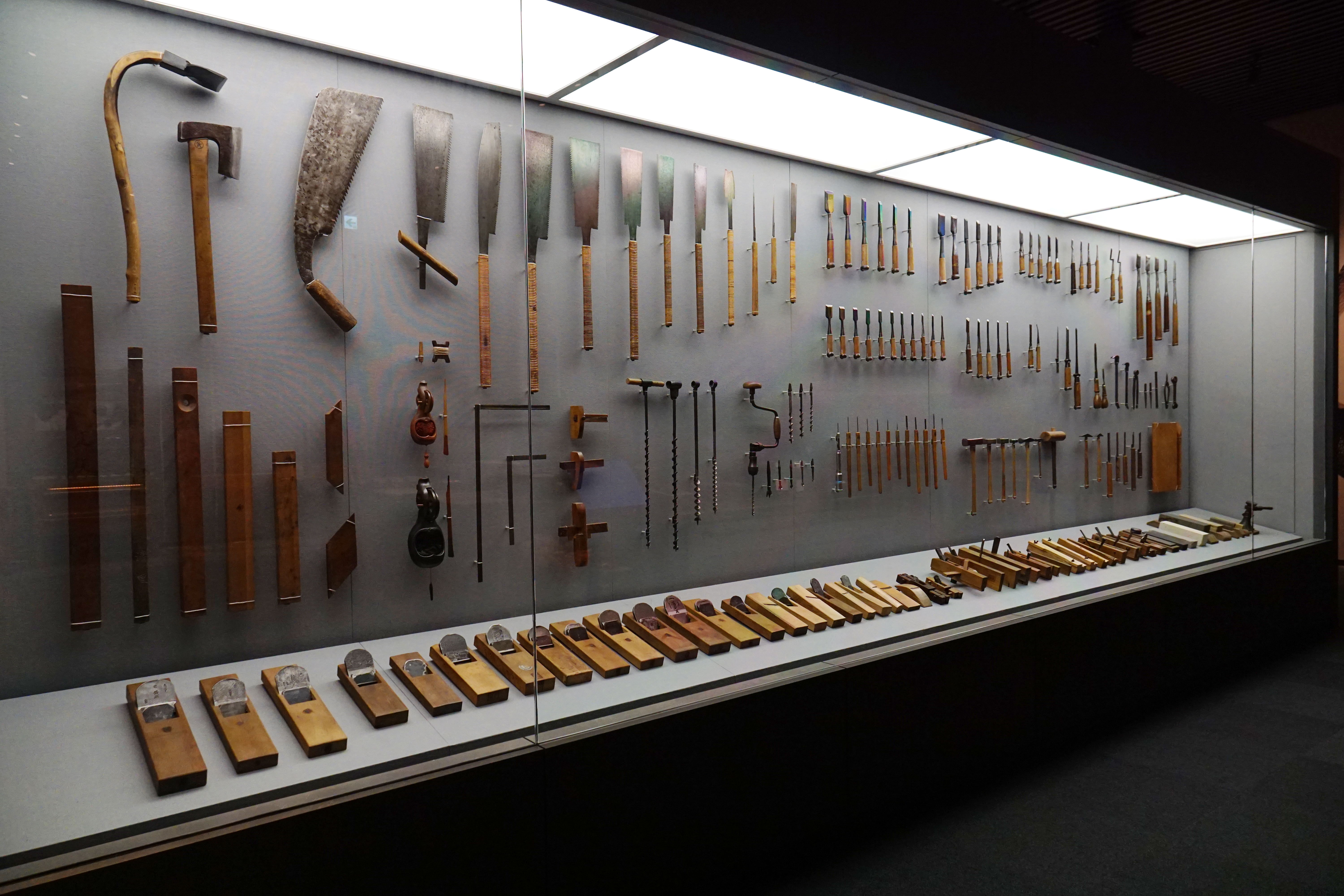 Takenaka Carpentry Tools Museum in Kobe, Hyogo prefecture, Japan.